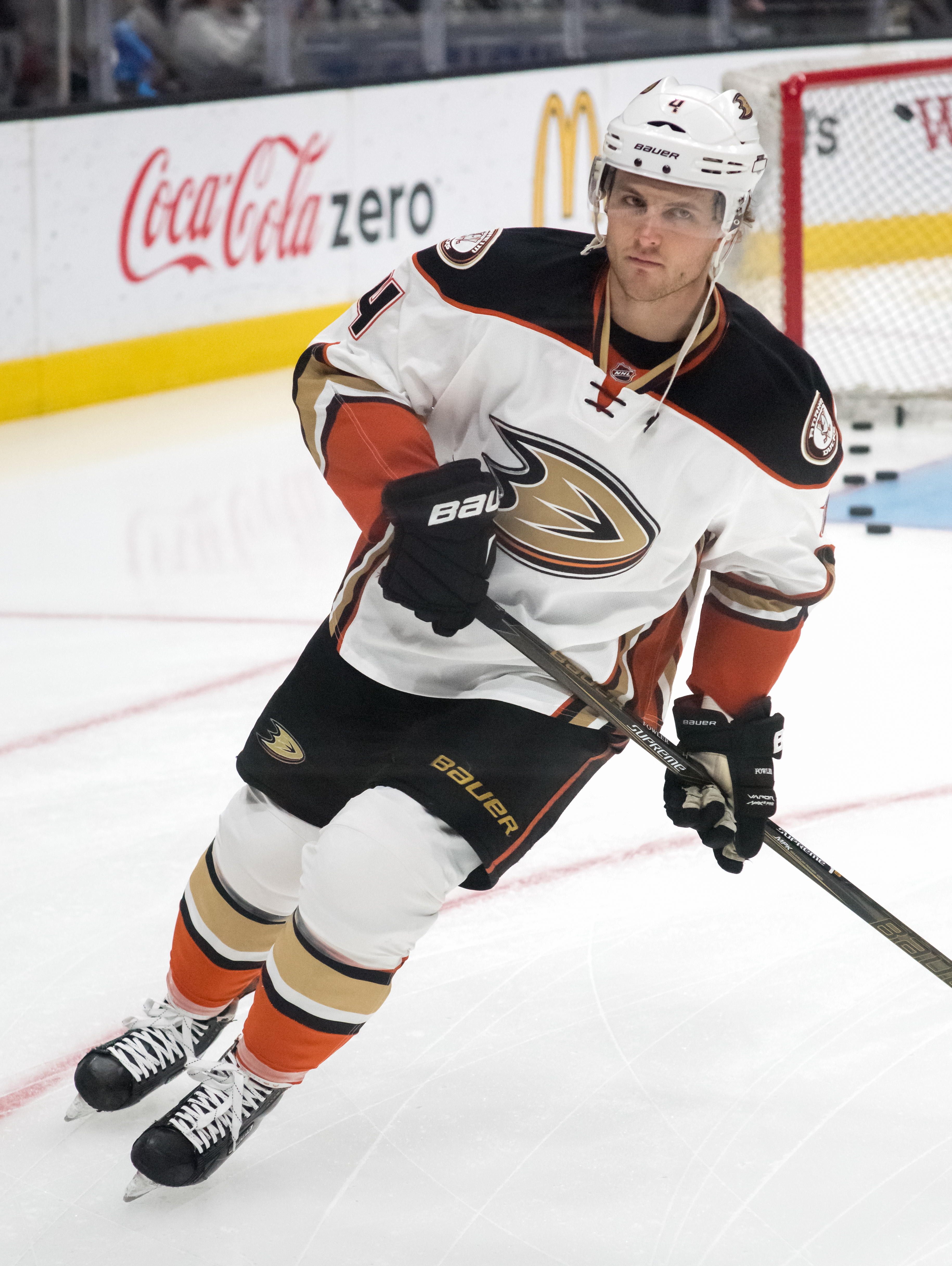 Cam Fowler in 2016